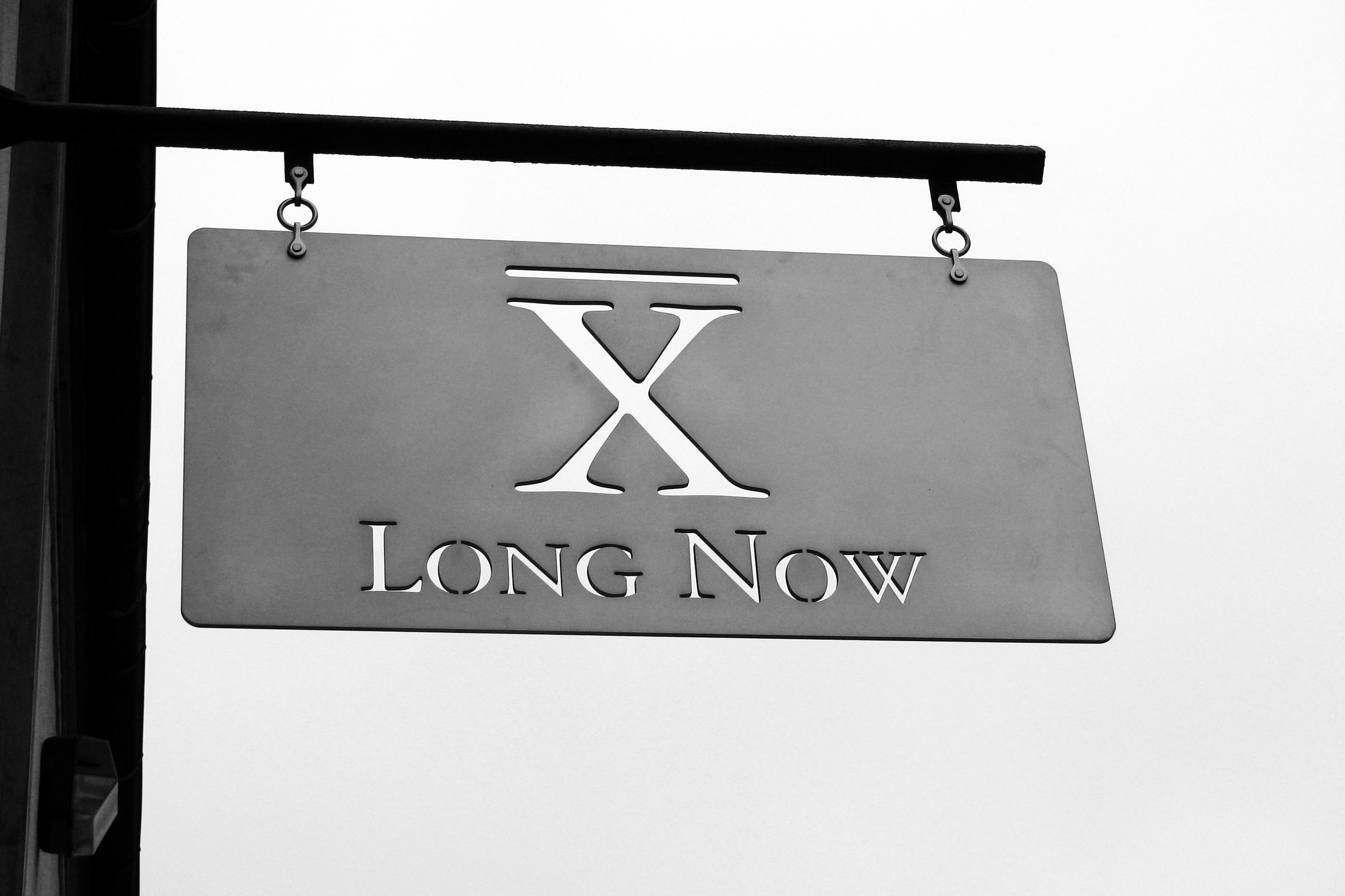 Sign of Long Now Foundation.